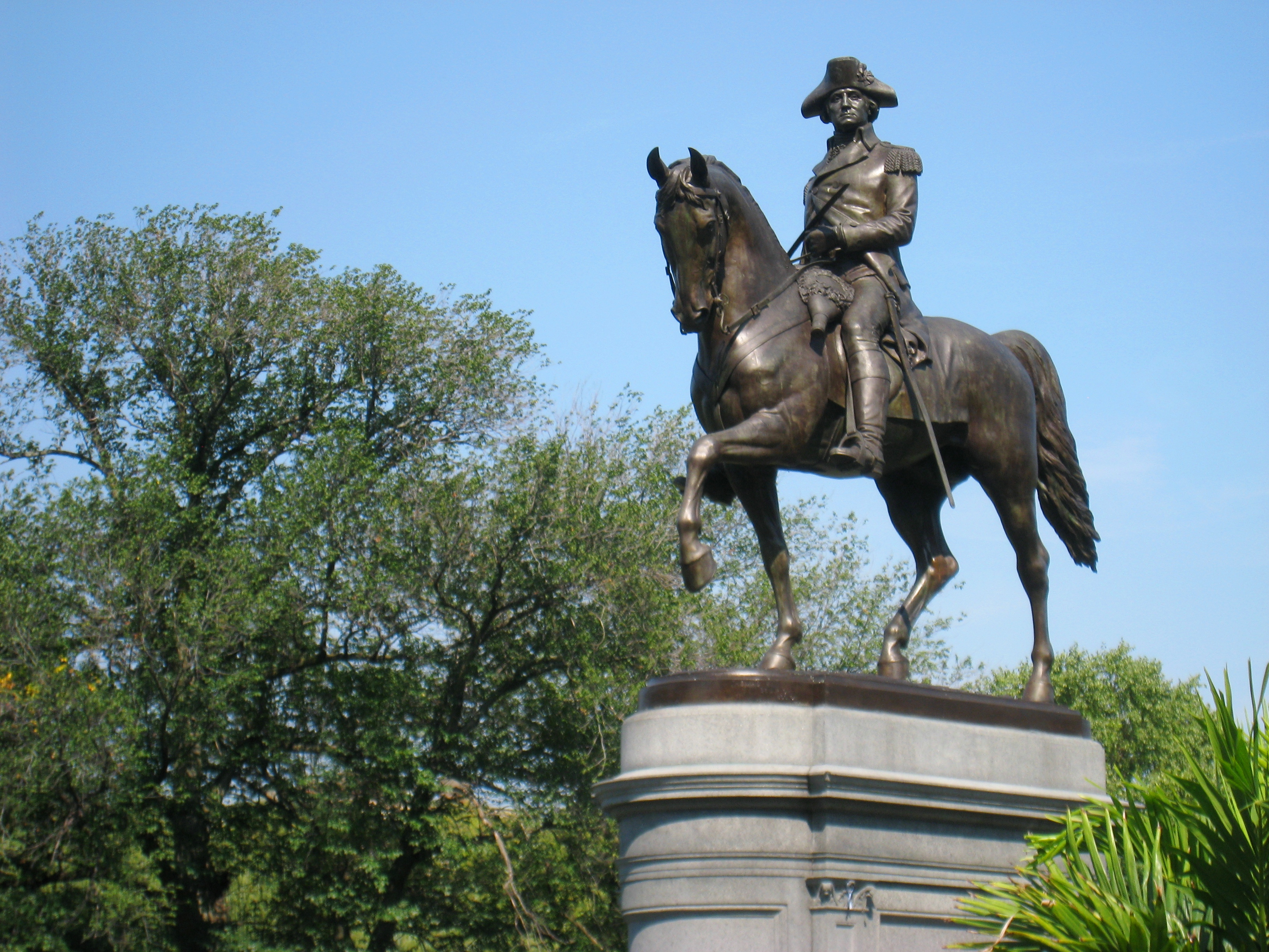 George Washington statue by Thomas Ball (June 3, 1819 – December 11, 1911), in the Boston Public Garden, Boston, Massachusetts, USA.